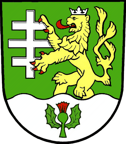 Coat_of_Arm_Dolní_Bečva, Czech Republic